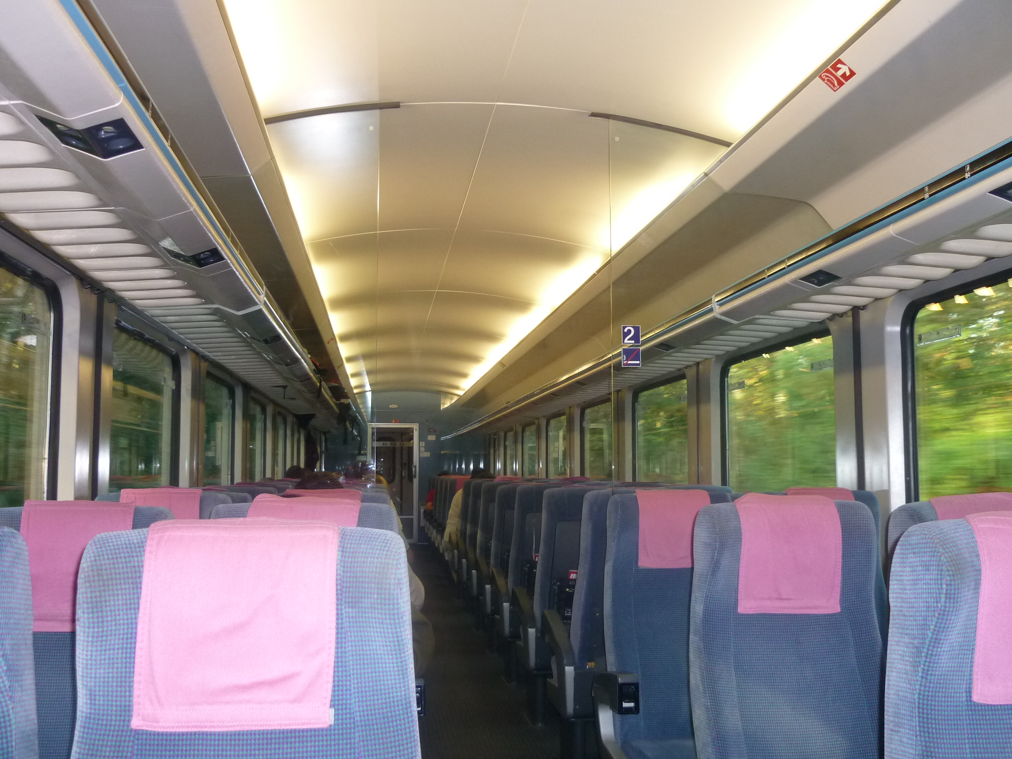 Interior of EuroCity train Jan Jesenius